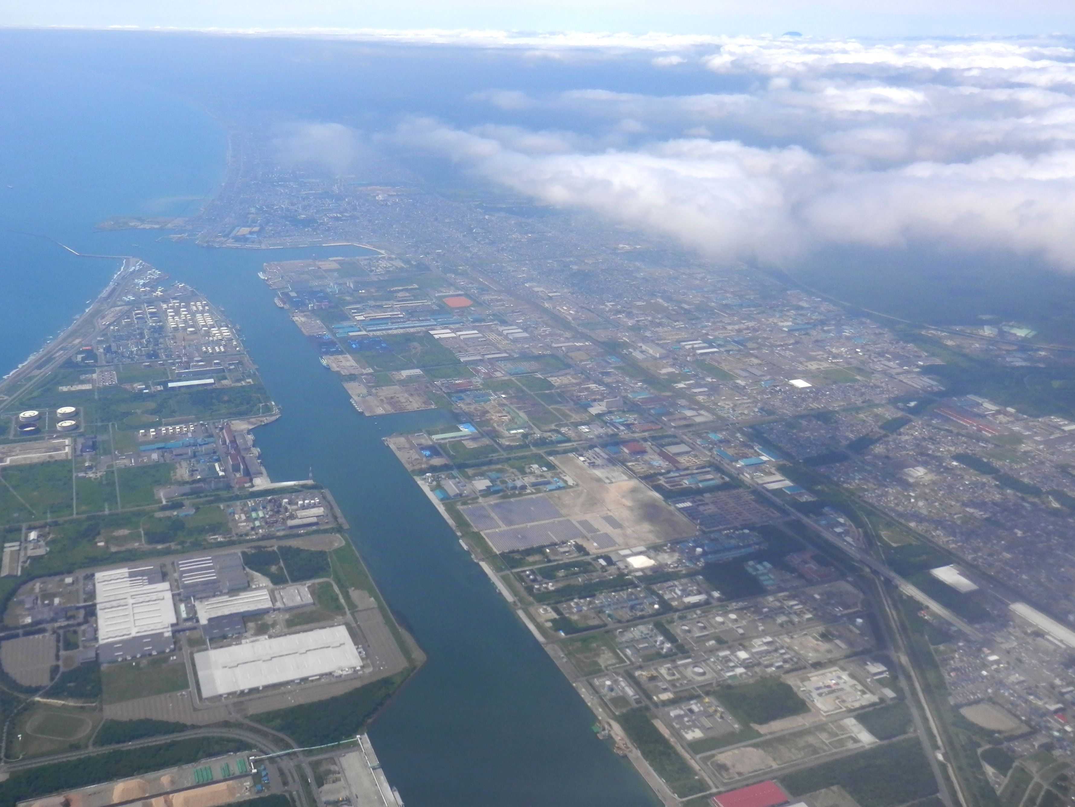 A view of Tomakomai, Hokkaido from an aeroplane